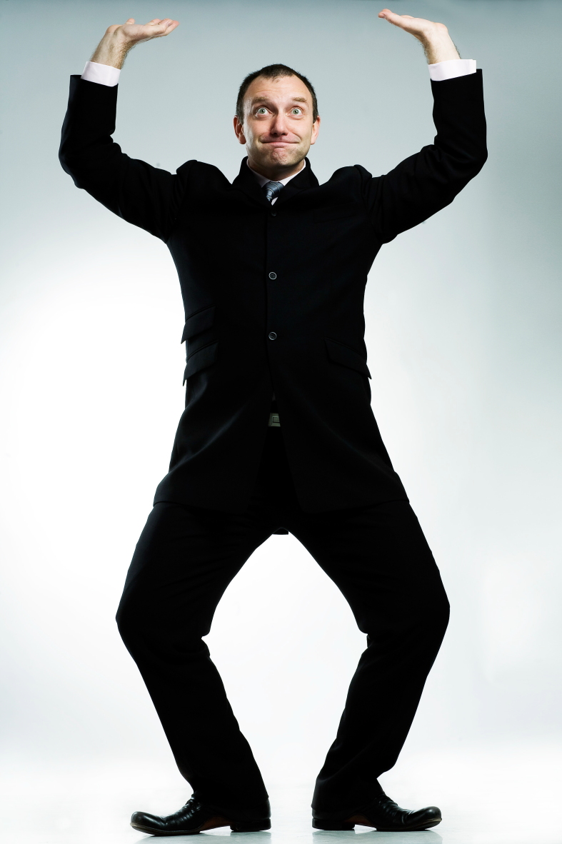 Marko Stojanović — Serbian actor, mime artist, cultural and humanitarian activist Српски (ћирилица): Марко Стојановић — српски глумац, пантомимичар, културни и хуманитарни радник Srpski (latinica): Marko Stojanović — srpski glumac, pantomimičar, kulturni i humanitarni radnik